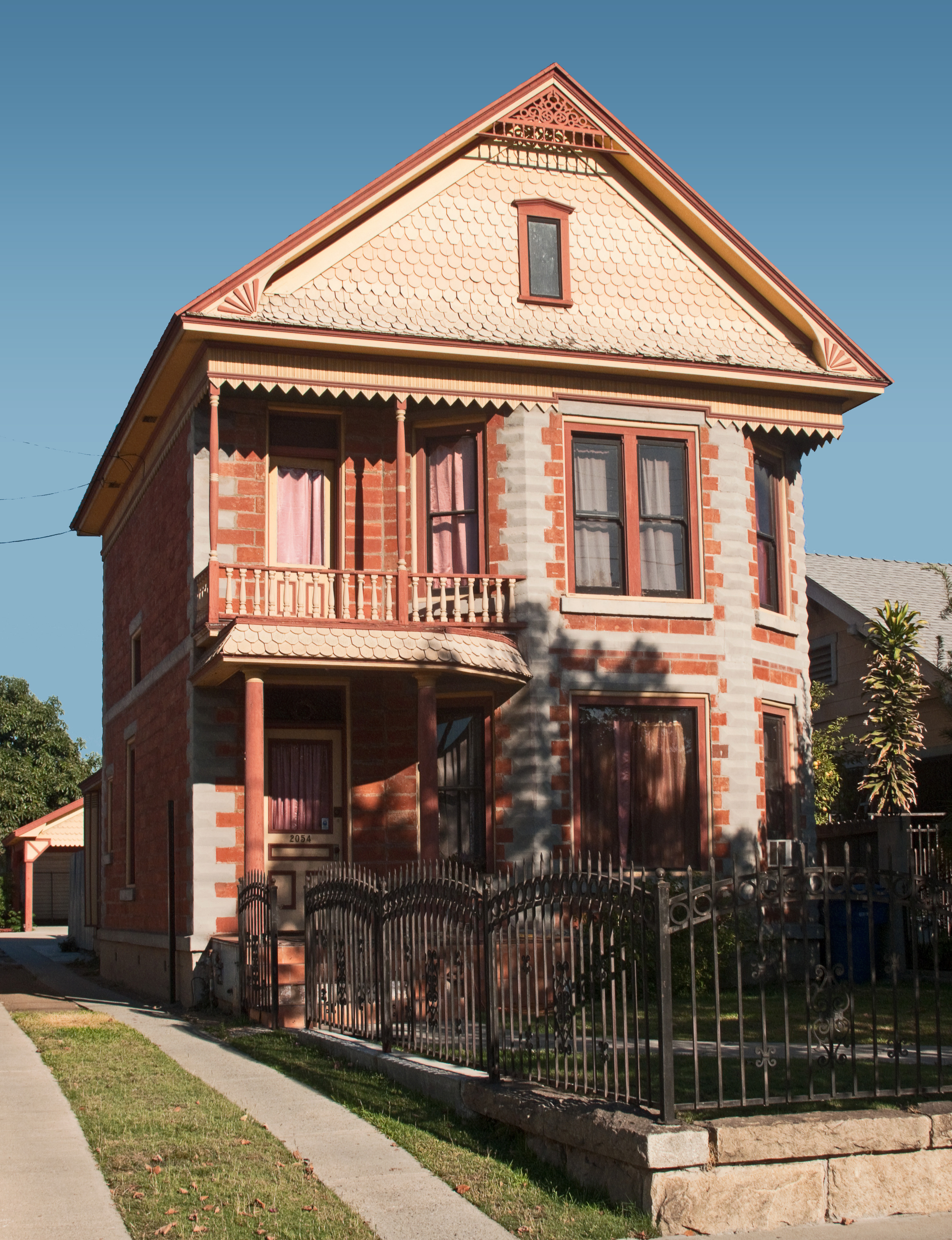 Los Angeles Historic-Cultural Monument #144, 2054 Griffin Avenue, in the Lincoln Heights neighborhood of Los Angeles, California